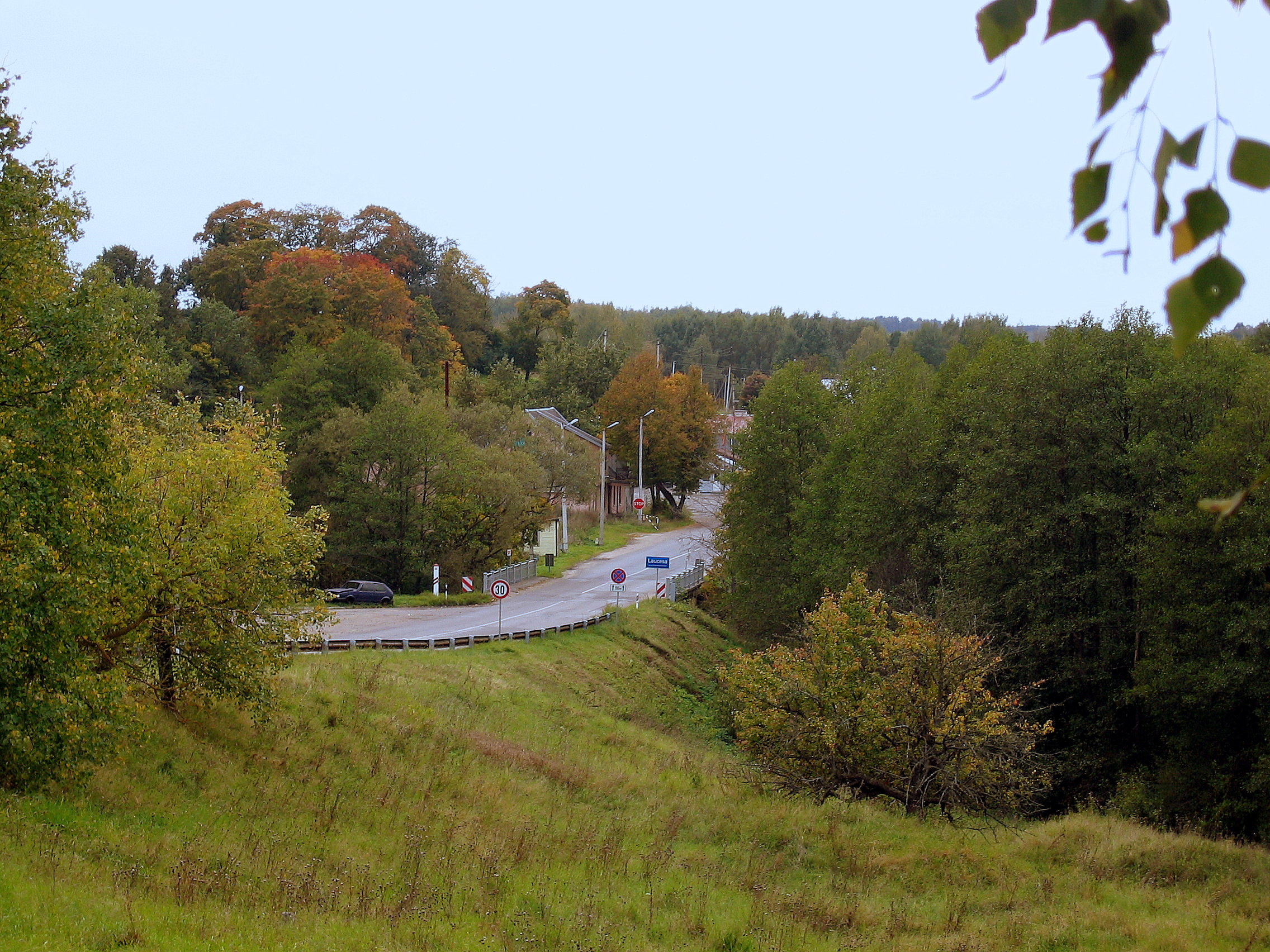 E262 near Latvian-Lithuanian border